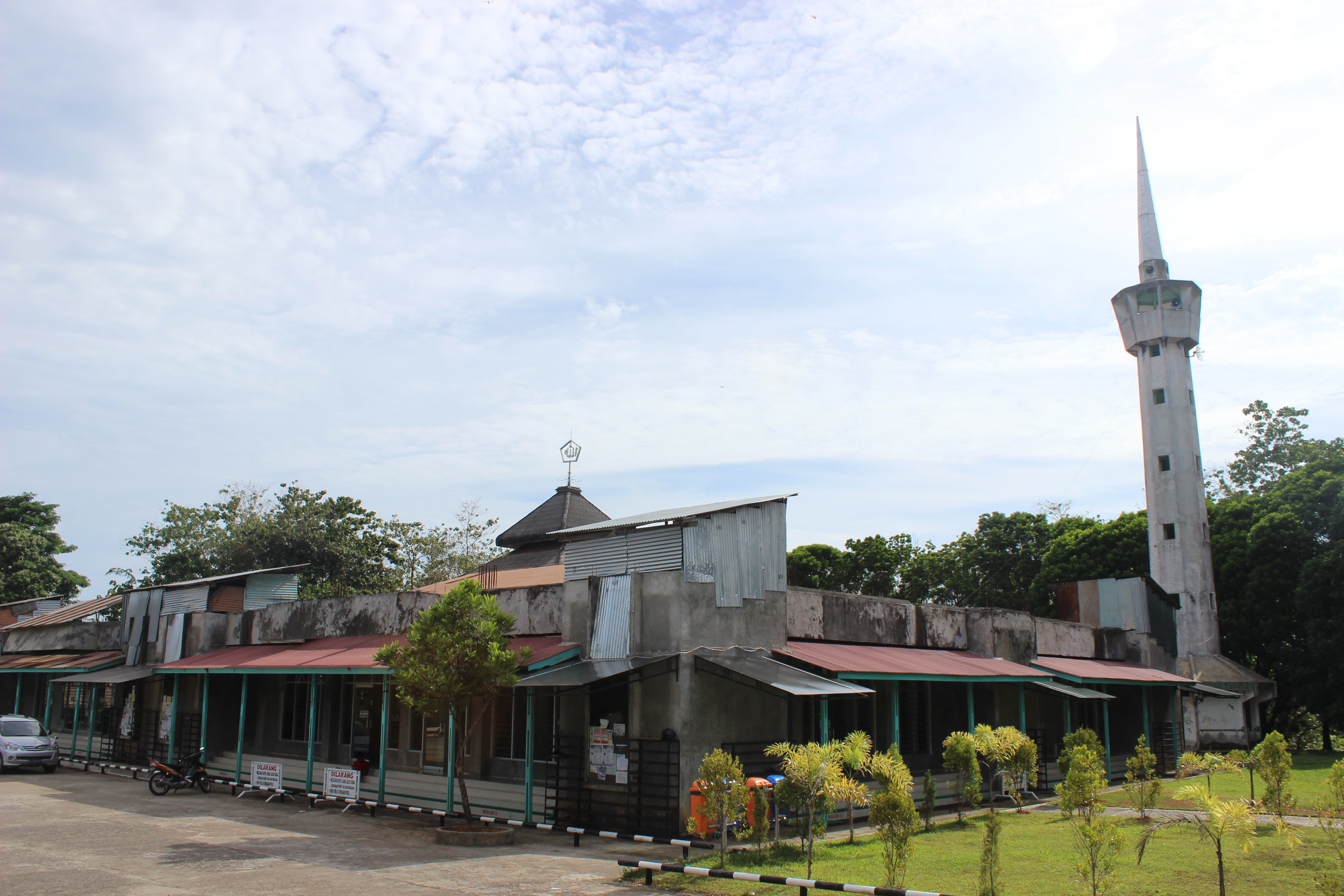 Masjid Nurul Ilmi in Andalas University campus, Limau Manih, Padang